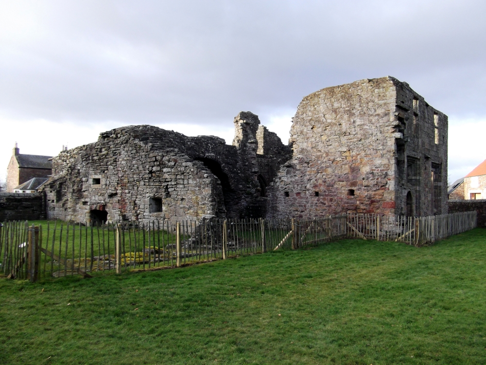 Balmerino Abbey as seen on 13th February 2012, captured with a Fujifilm JX530 camera. Colours have been slightly corrected in The GIMP.